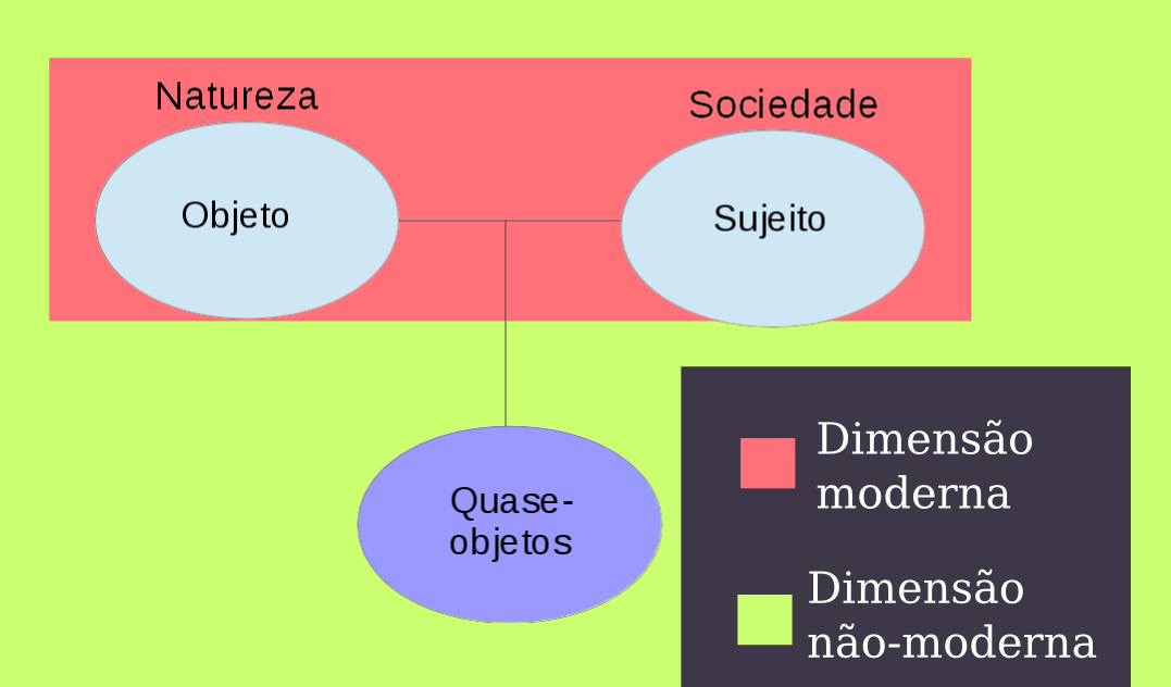 Modern and non-modern dimensions according to Bruno Latour in his work "Nous n'avons jamais été modernes"